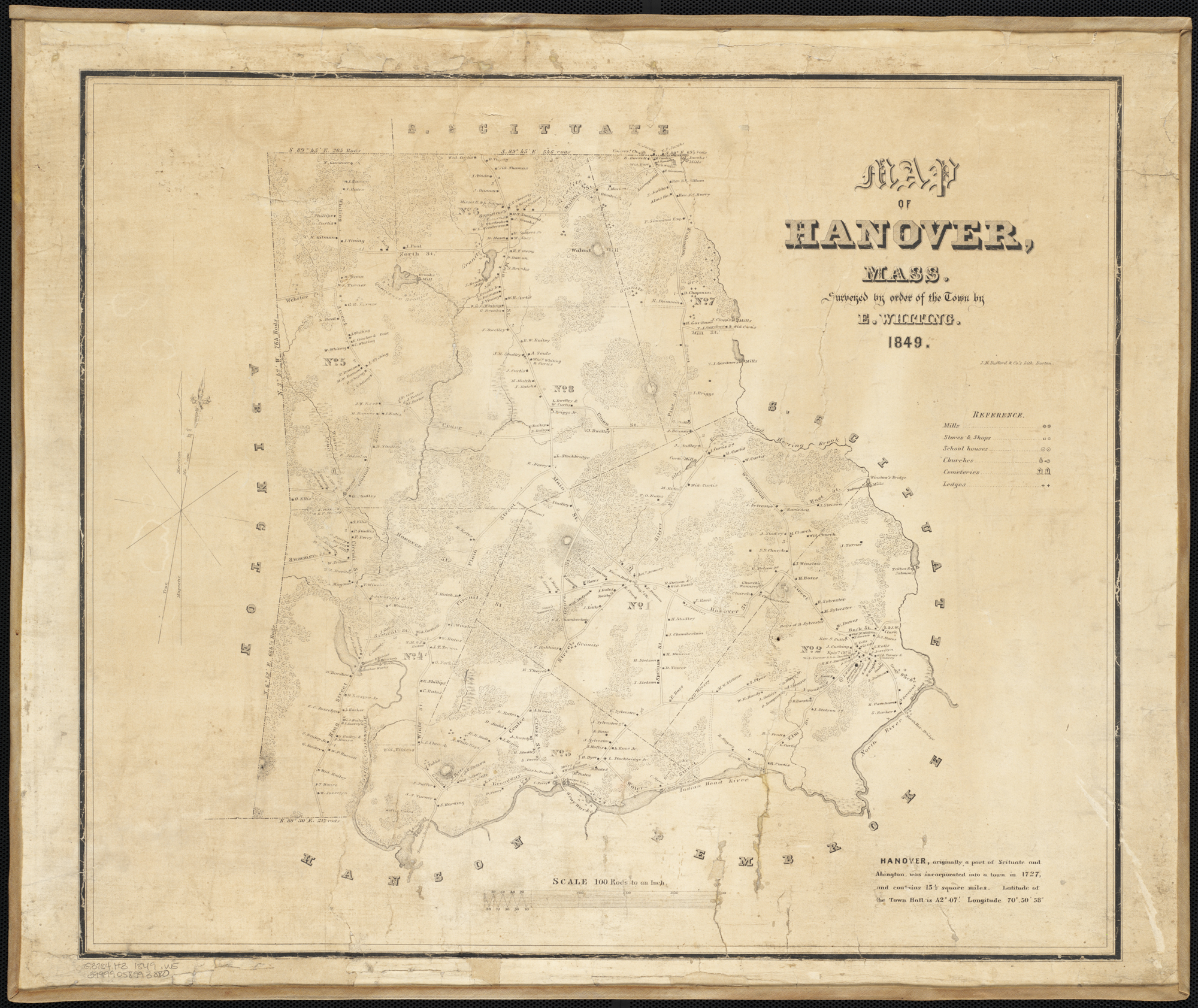 Zoom into this map at . Author: Whiting, E. Publisher: J.H. Buford & Co.'s Lith. Date: 1849. Location: Hanover (Mass. : Town) Scale: Scale [ca.1:19,800]. 100 rods to an inch. Call Number: G3764.H3 1849.W5